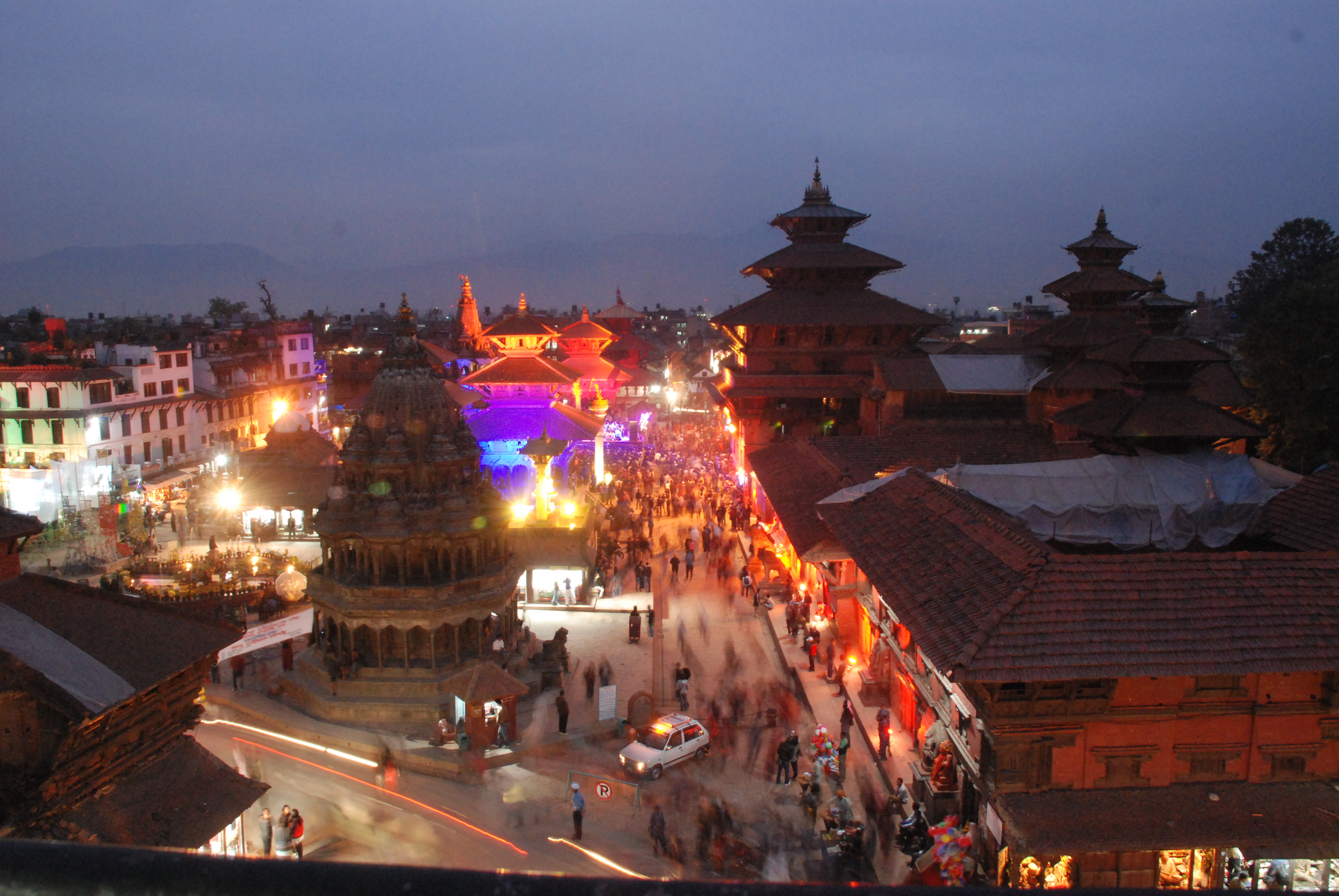 An evening landscape view of Patan Durbar Square